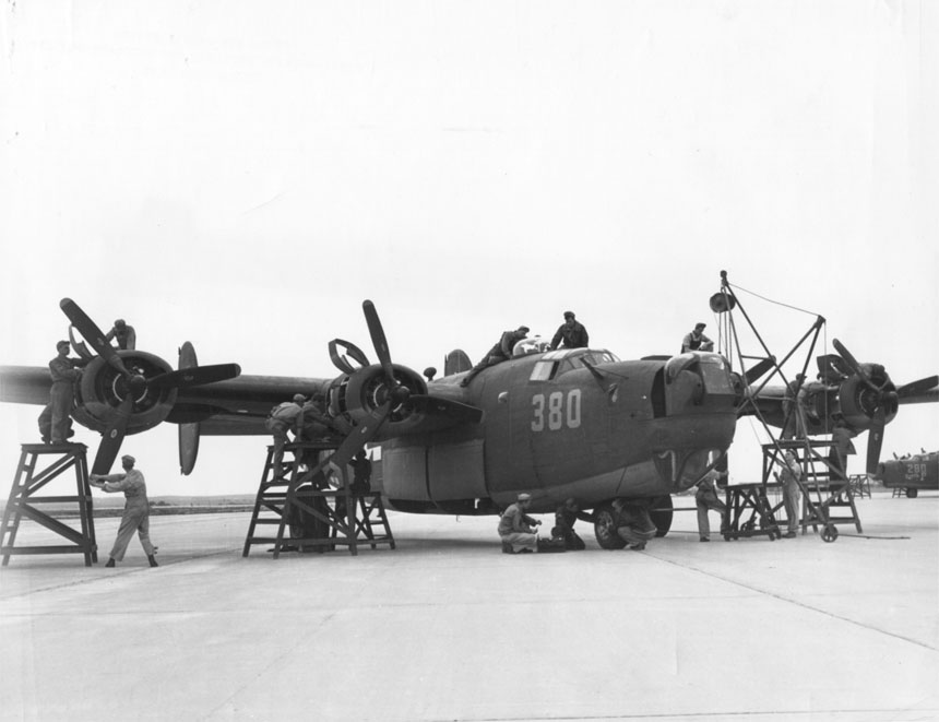 Maintenance Mechanics at Laredo Army Air Field, Texas give a Consolidated B-24 "Liberator" a complete overhaul before flight, 8 February 1944.